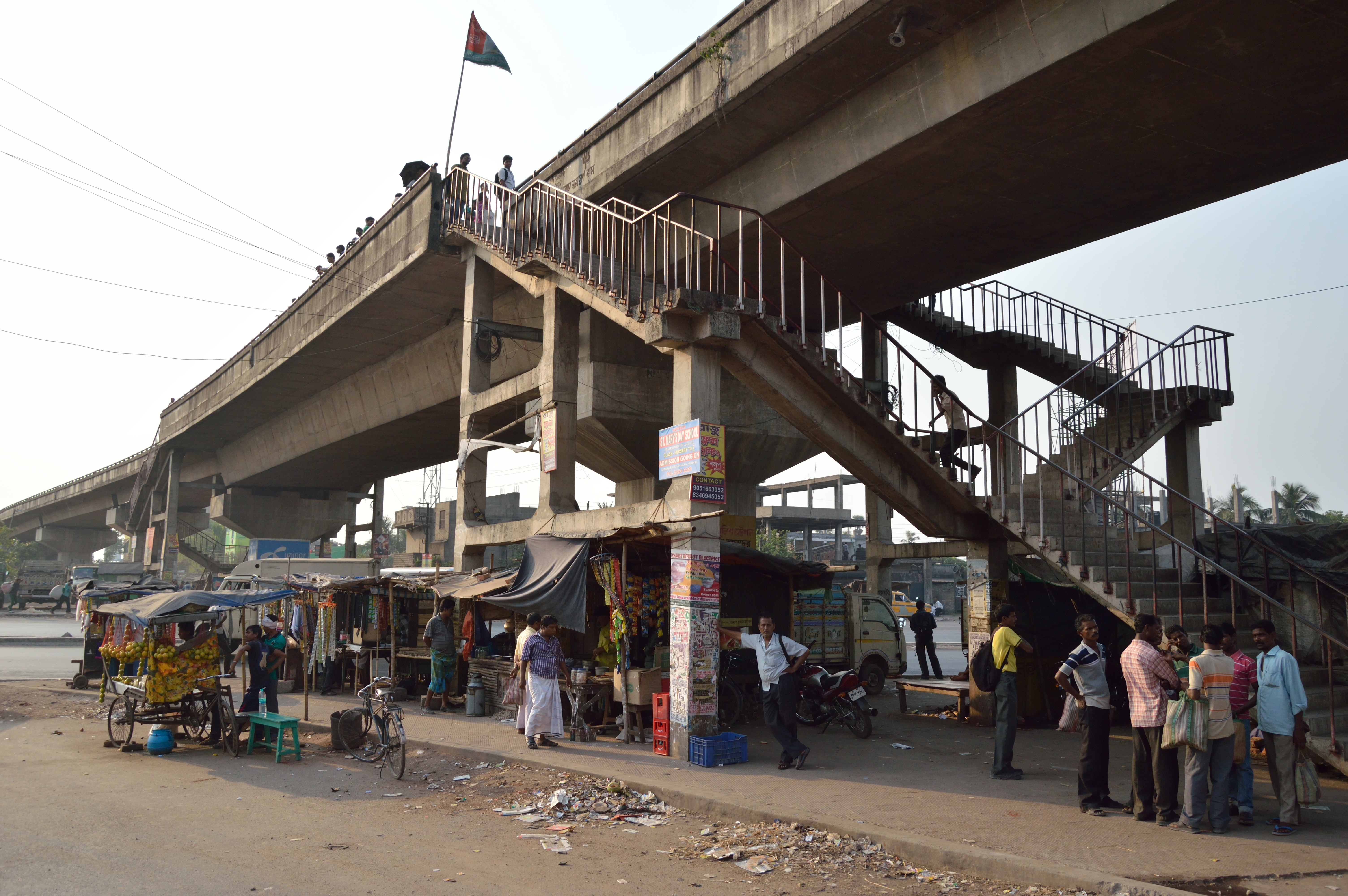 Photographed in Howrah, West Bengal, India.